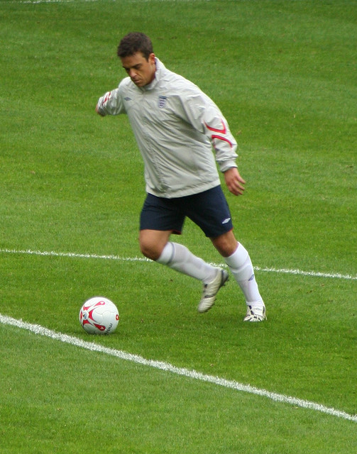 Robbie Williams before the charity match Soccer Aid. 27th May 2006 at the Theatre of Dreams, Old Trafford, Manchester